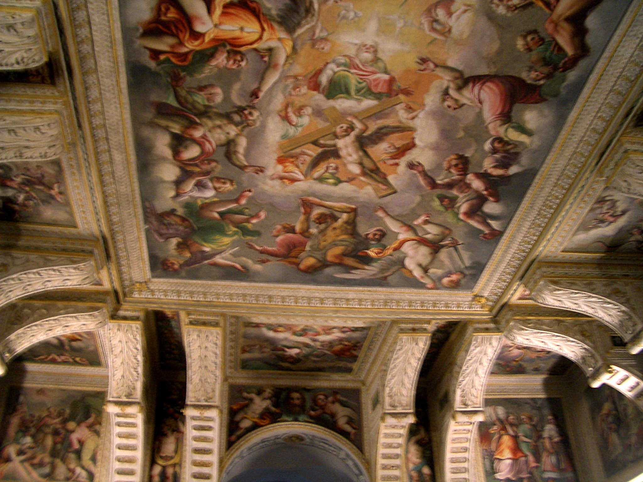 Abbey of Rodengo Saiano, room leading to the refectory, frescoes of the ceiling painted by Lattanzio Gambara, ca 1570